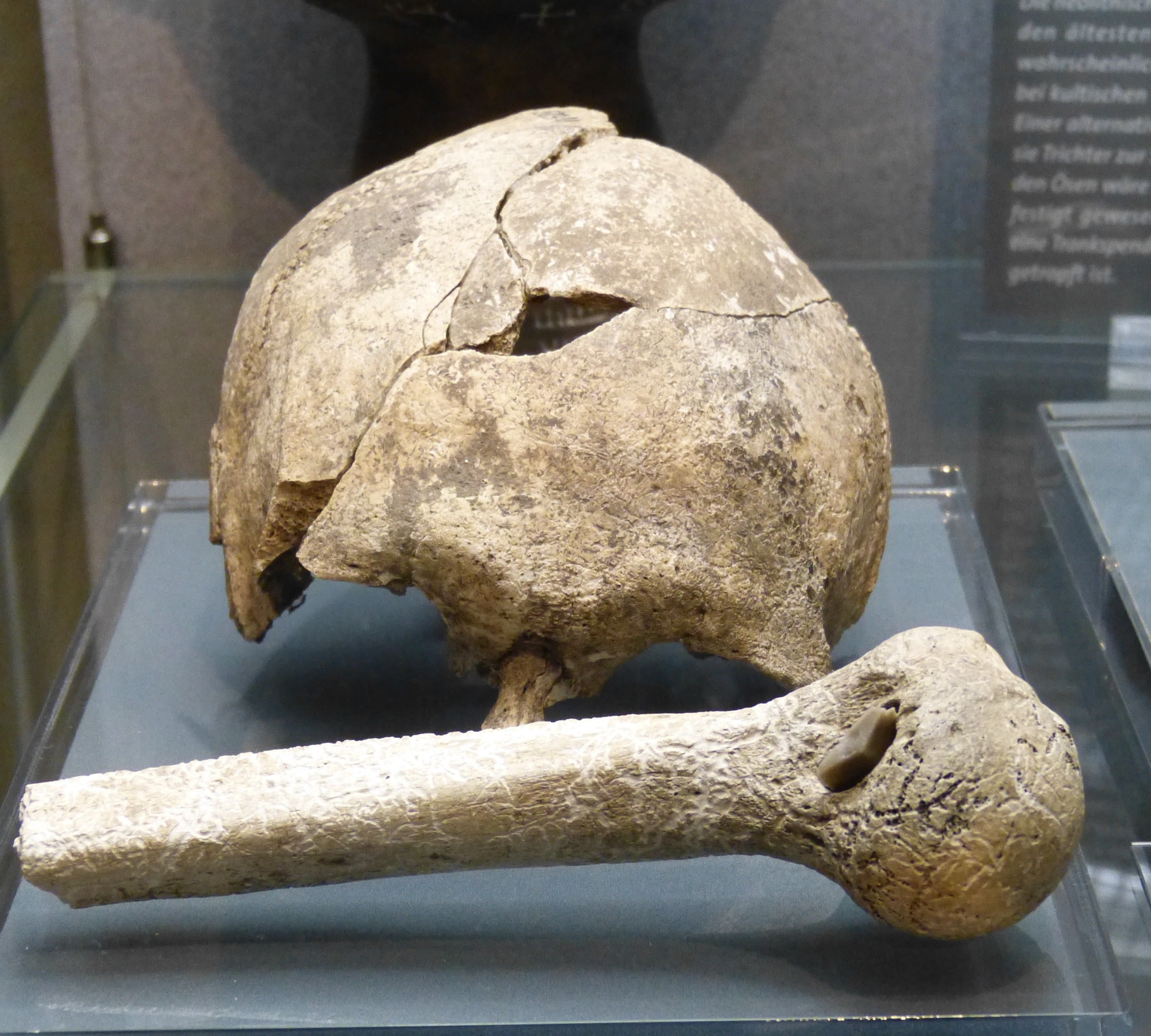 Weimar ( Thuringia ). Museum for Prehistory in Thuringia: Traces of prehistoric warfare - Human skull broken by a stone axe from Schönstedt and Humerus with flint arrow tip from Niederbösa.